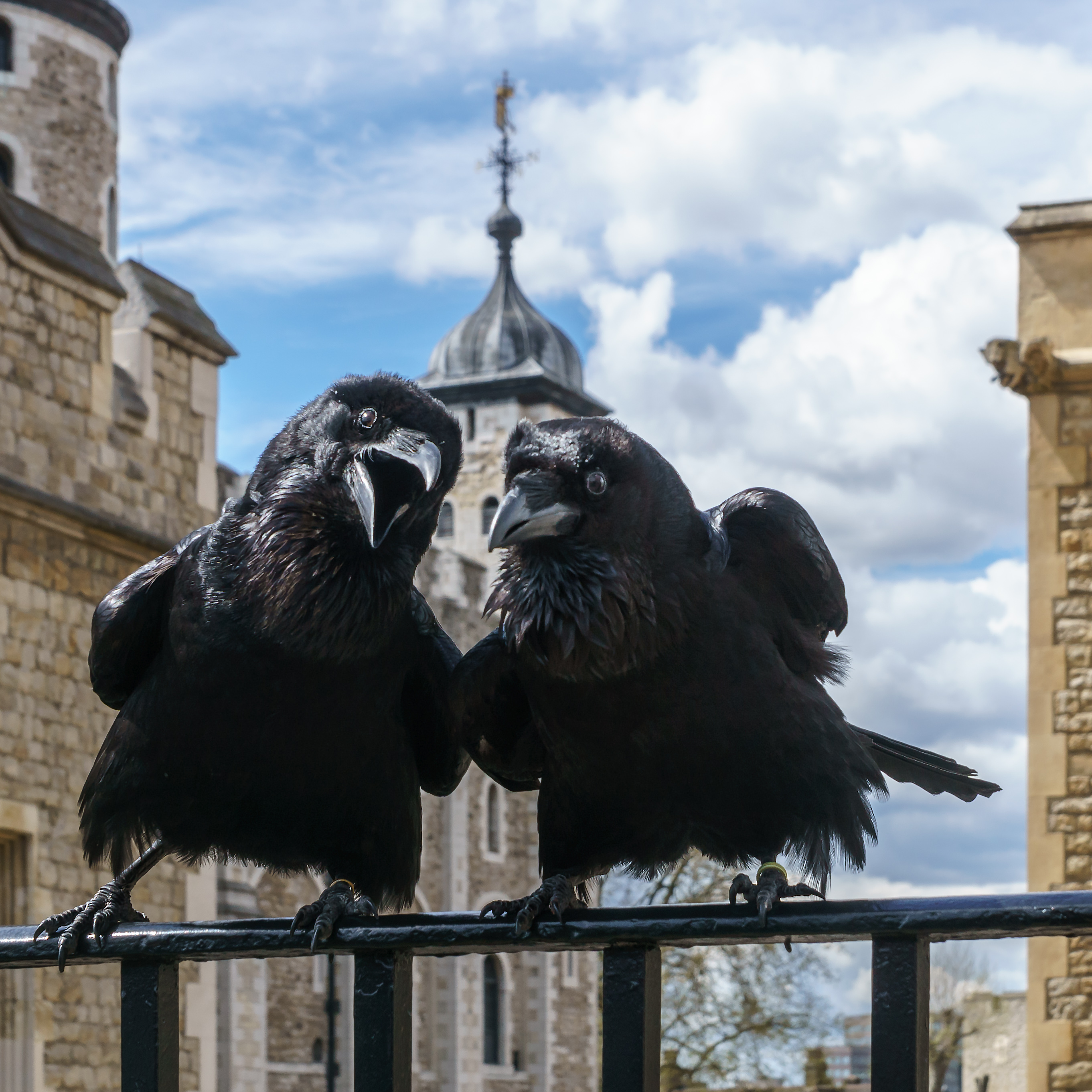 Jubilee and Munin, Ravens of the Tower of London. Jubilee was hatched in Somerset in 2012 and wears a gold band. He was given to the Queen on her Diamond Jubilee. Munin was hatched in North Uist in 1995 and wears a light green band. She is the oldest raven at the tower. Identification confirmed with Chris Skaife, Ravenmaster at the Tower. (Sources: [1], [2], [3])